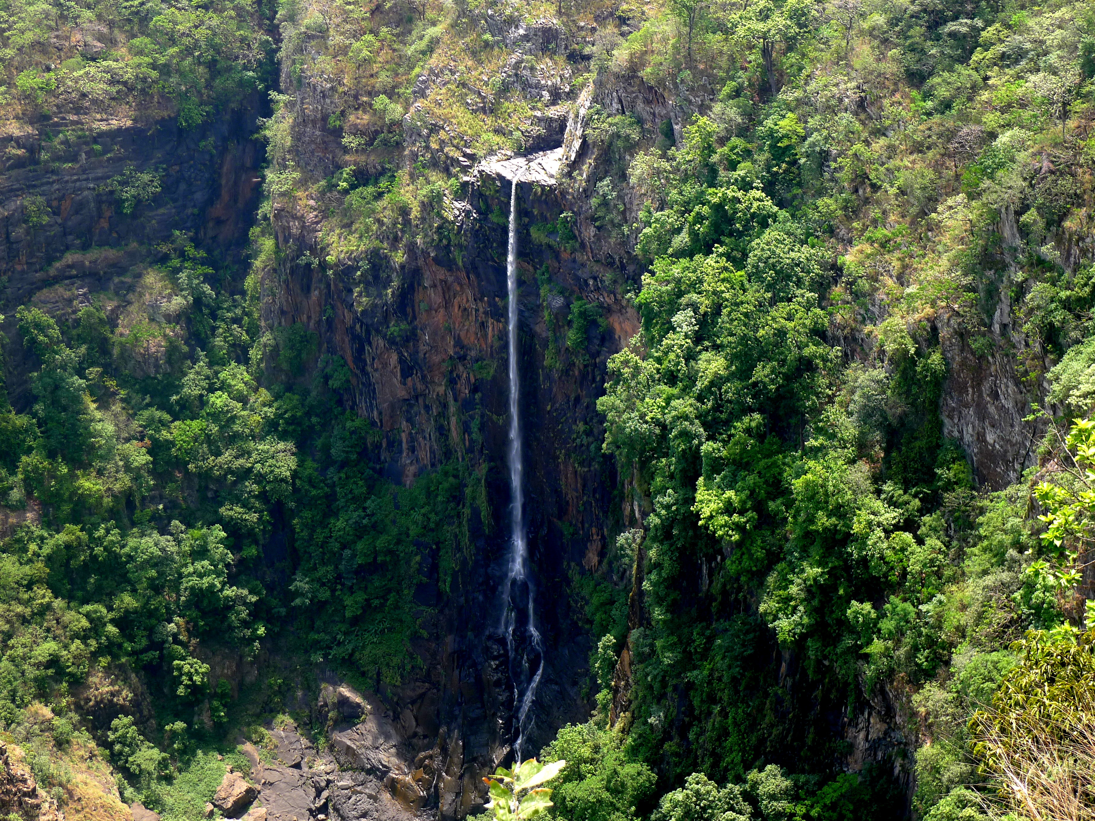 Joranda Water Fall, Simlipal UNESCO-MAB Biosphere Reserve